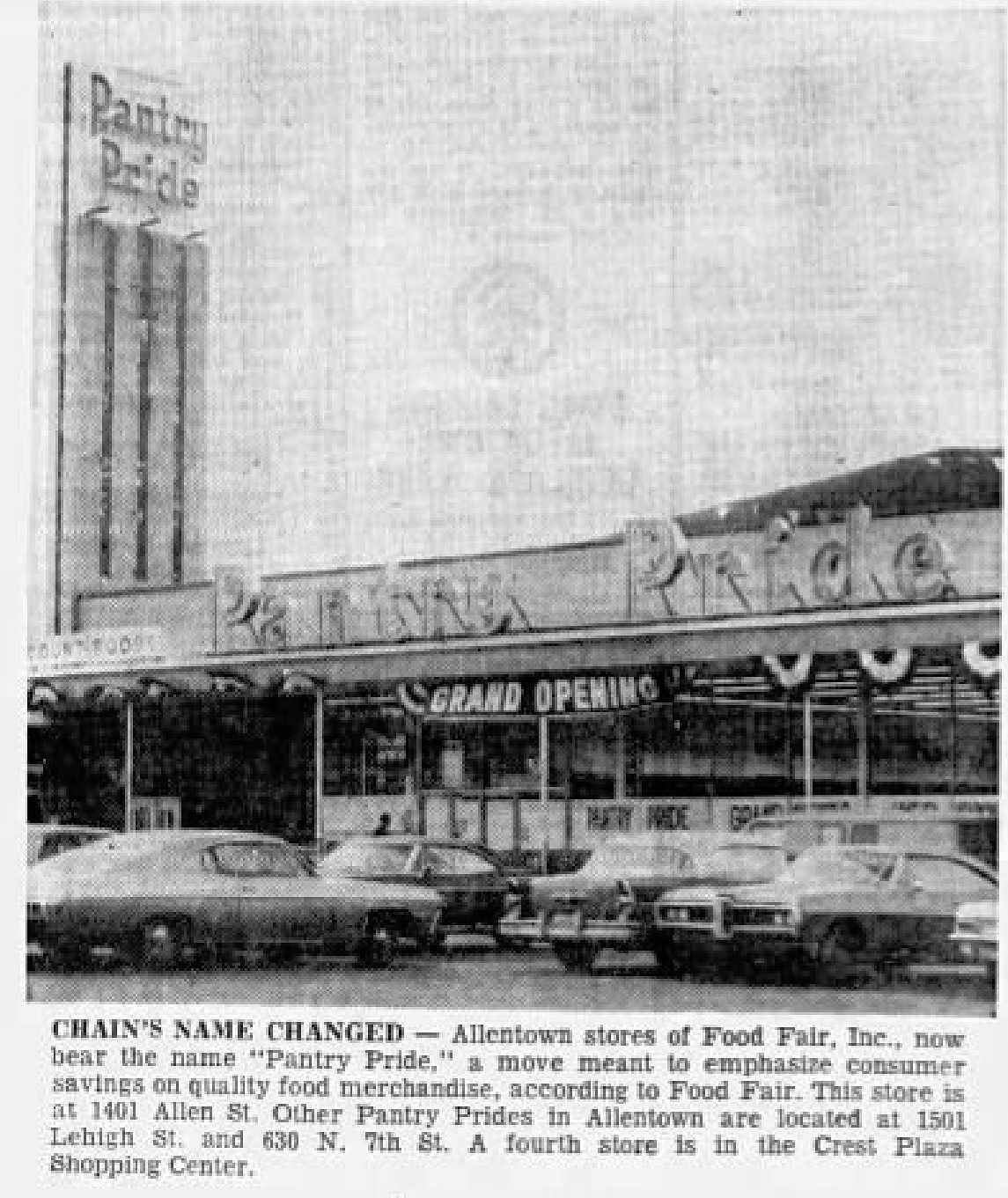 Pantry Pride - 12 Mar MC - Allentown PA